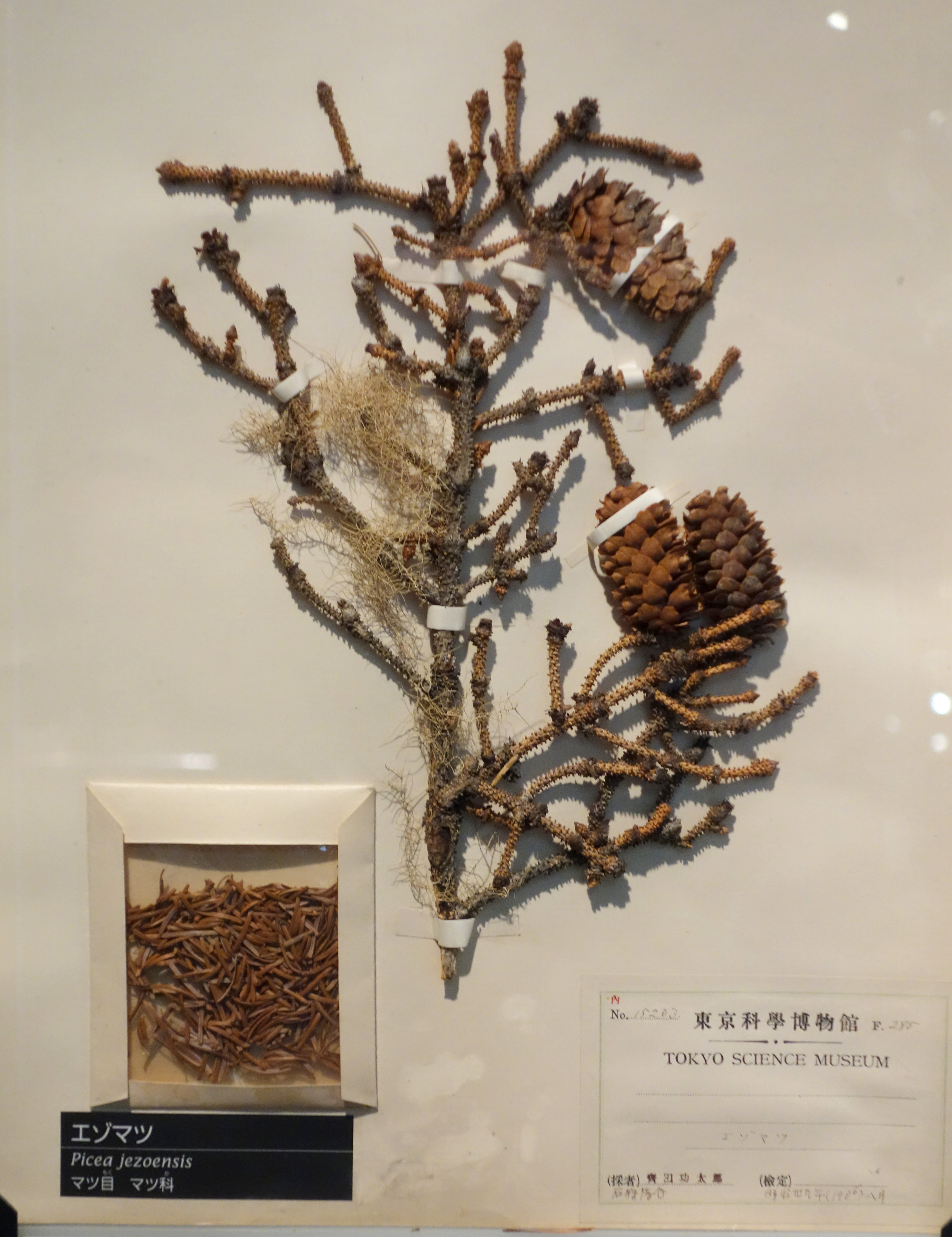 Exhibit in the National Museum of Nature and Science, Tokyo, Japan.